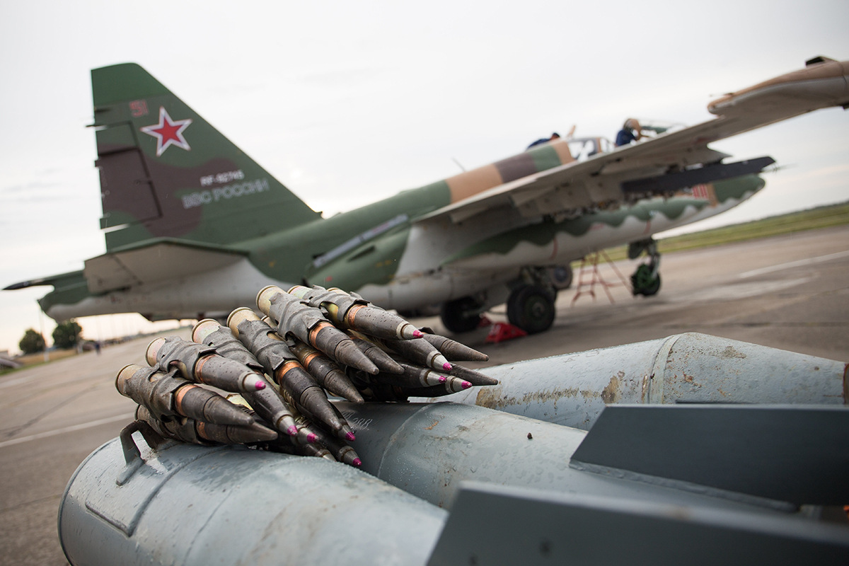 Soviet GSh-30-2 cannon 30 x 165 mm shells.